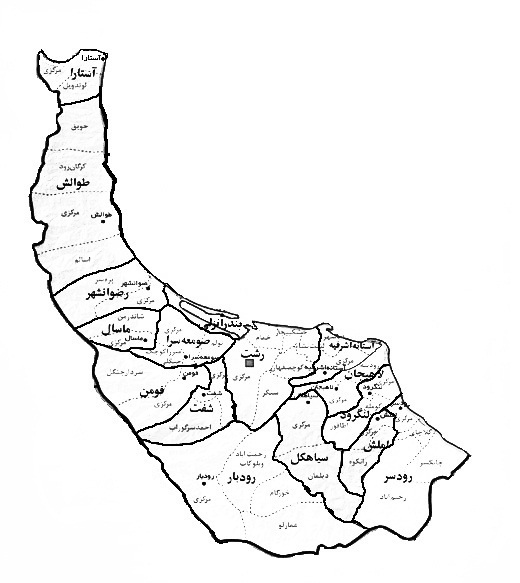 Gilan province administrative divisions , 2012